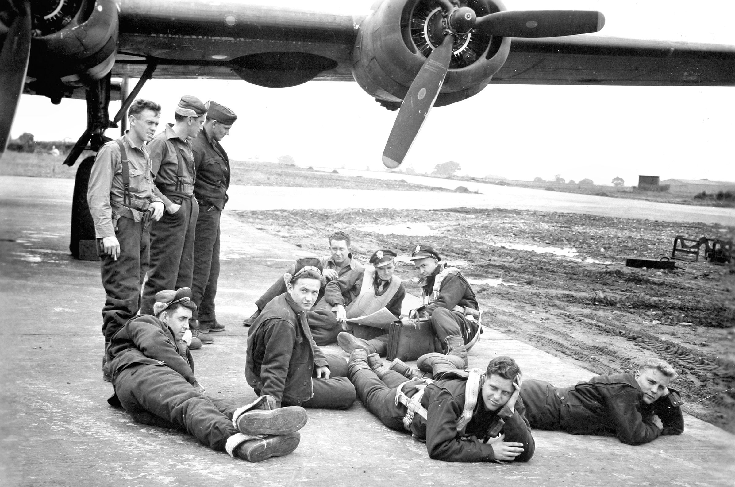 466TH BOMB GROUP, 786th Sq, Dougherty Crew # 612. While waiting for a delayed mission, crew members were taking it easy when a jeep rolled up and a photographer took this picture. The next day the photo was posted on the main bulletin board with a sign- " Improper Crew Behavior while awaiting a delayed mission!" Crew members in the Photo: Standing L to Right: Everette M. Cranage (R/O), Charles Patton (RWG) Harry DeBoef (E) On the ground Front Left to Right; Richard Schroeder (LWG) Nick Kuklish (TG), Robert P Boumann (CP), Fred Utter (TT) On Ground Back Left to right: Ray "Buz" Edwards (B) , Jack Dougherty (P), Bill Horney, (N)